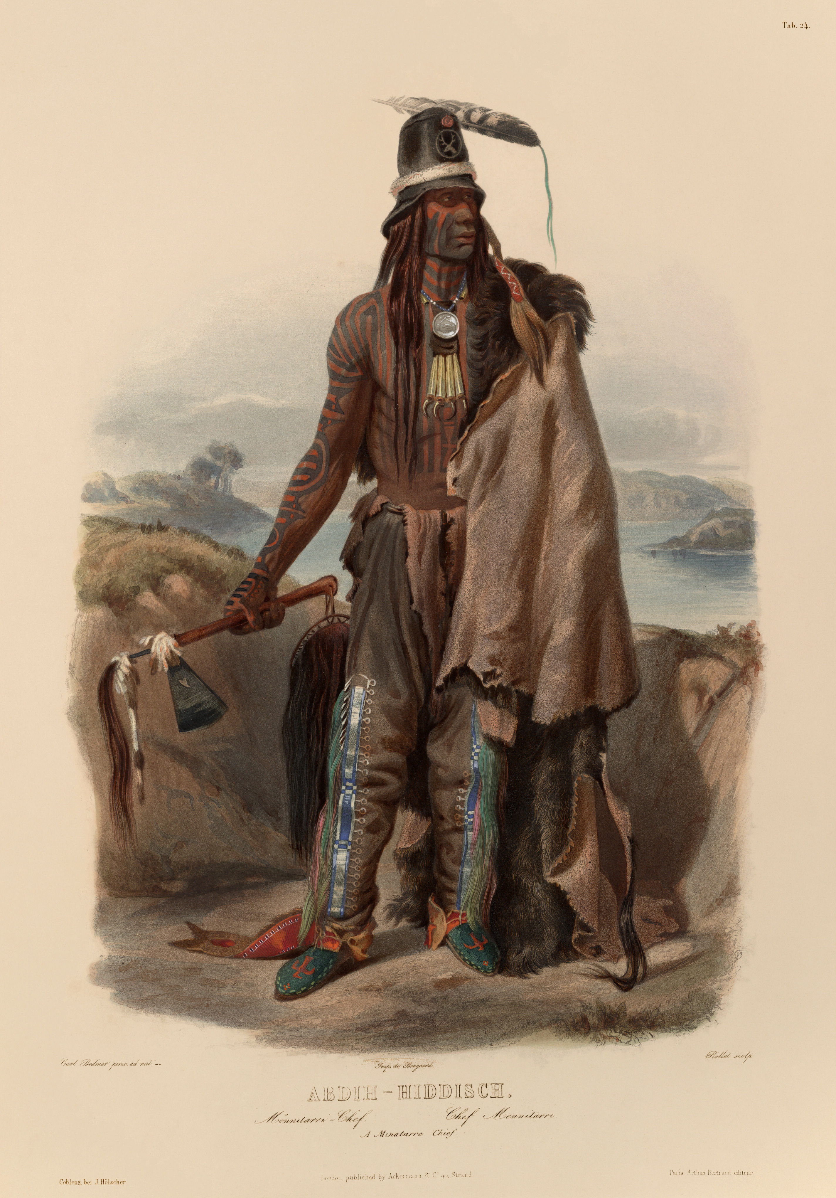 Road Maker, or Aríìhiriš, a 19th-century Hidatsa chief. The Hidatsa are Siouan people. Hidatsa are enrolled in the federally recognized Three Affiliated Tribes of the Fort Berthold Reservation in North Dakota. Their language is related to that of the Crow, and they are sometimes considered a parent tribe to the modern Crow in Montana.